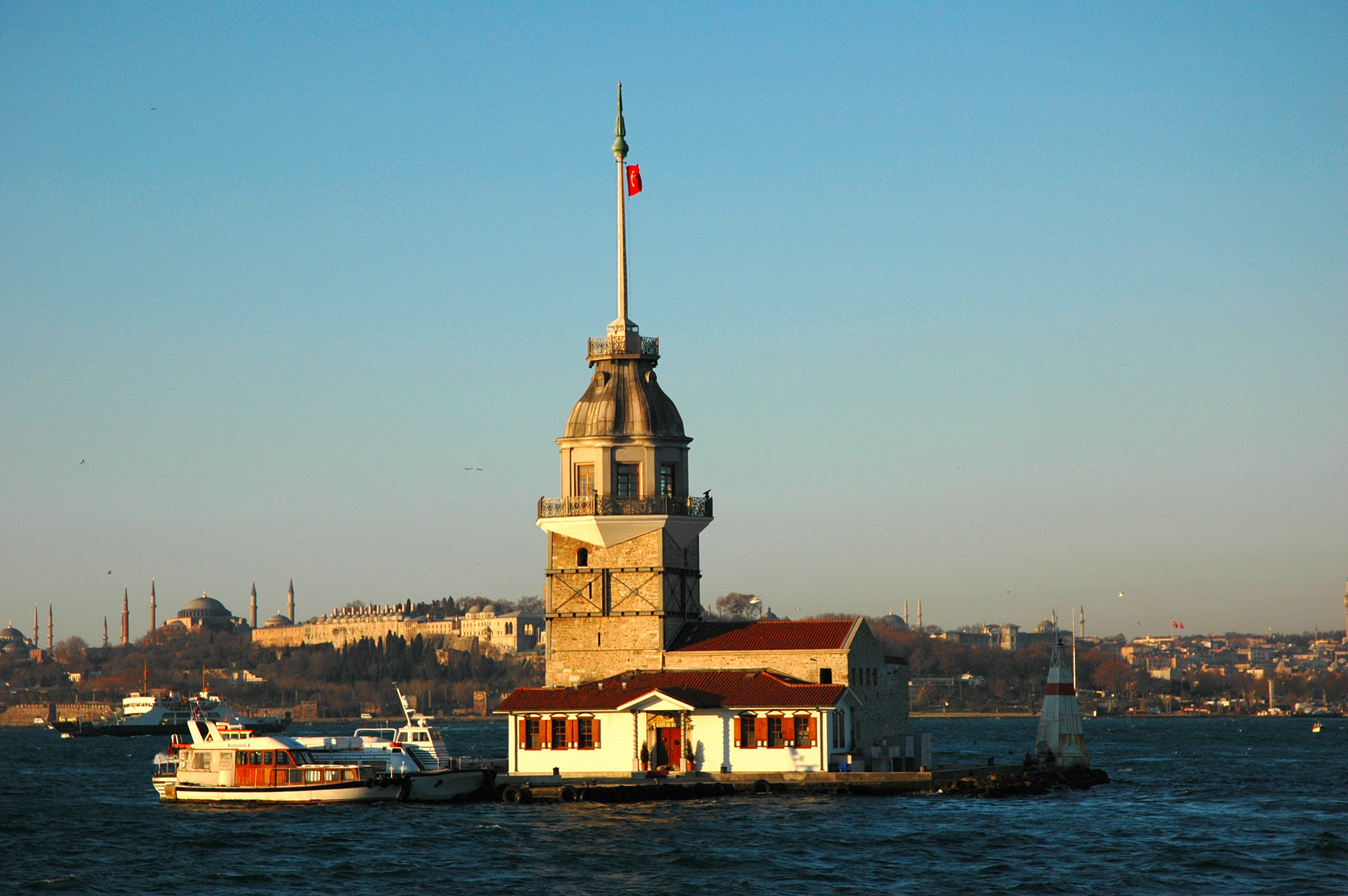 Maiden's Tower, Istanbul, Turkey.